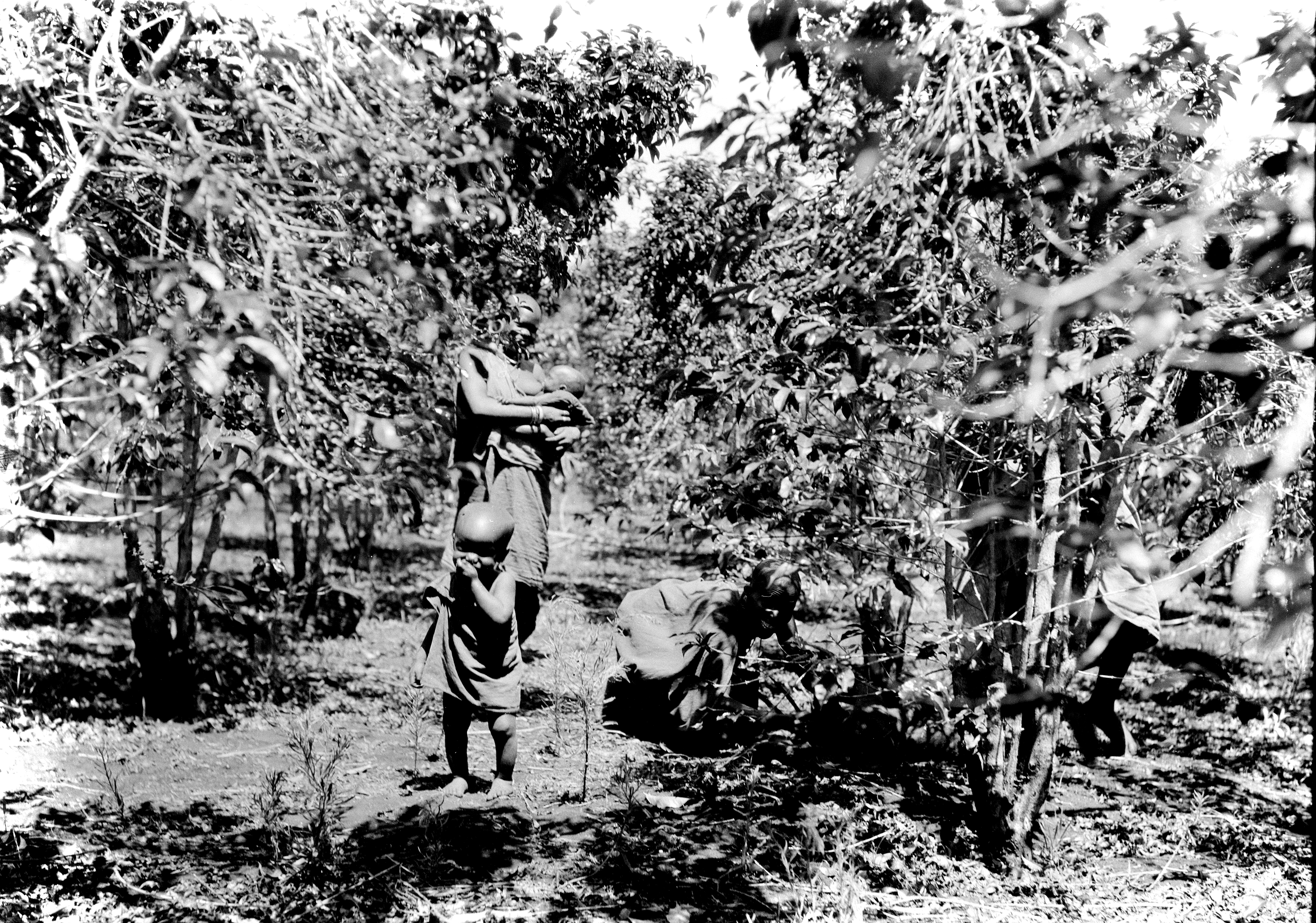 Coffee plantation in Kenya.